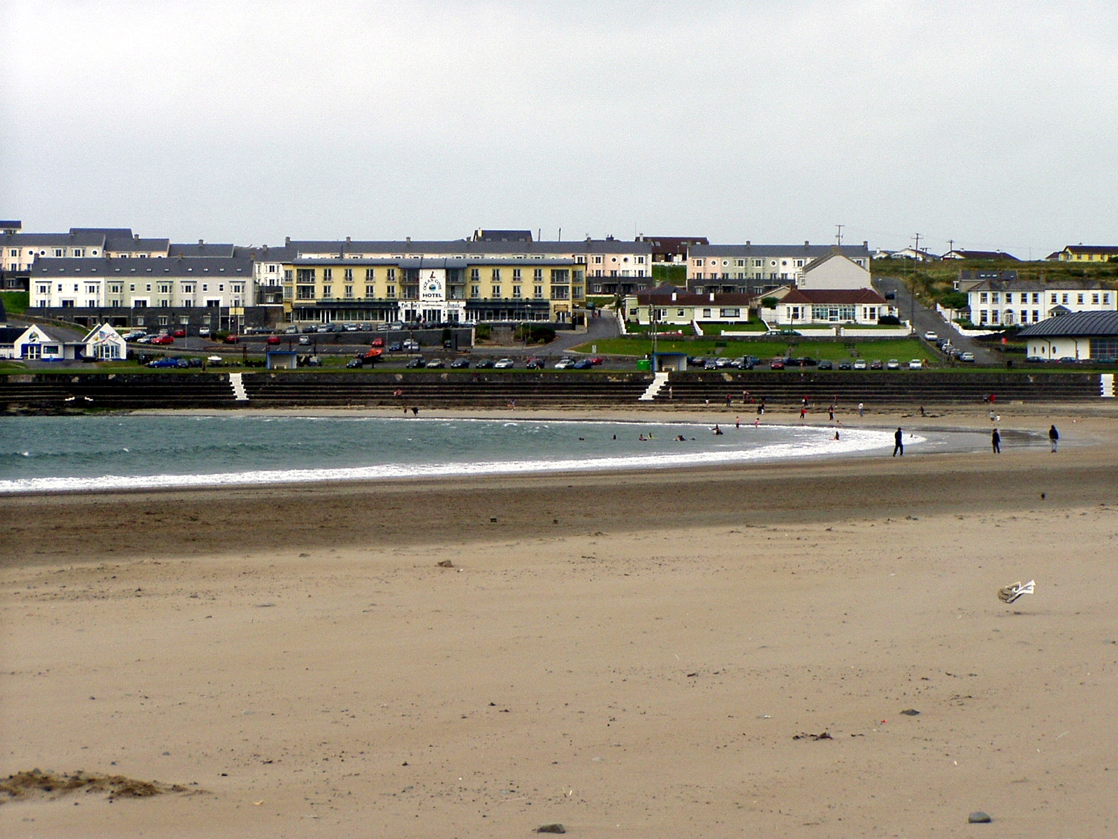 Kilkee, County Clare, Ireland